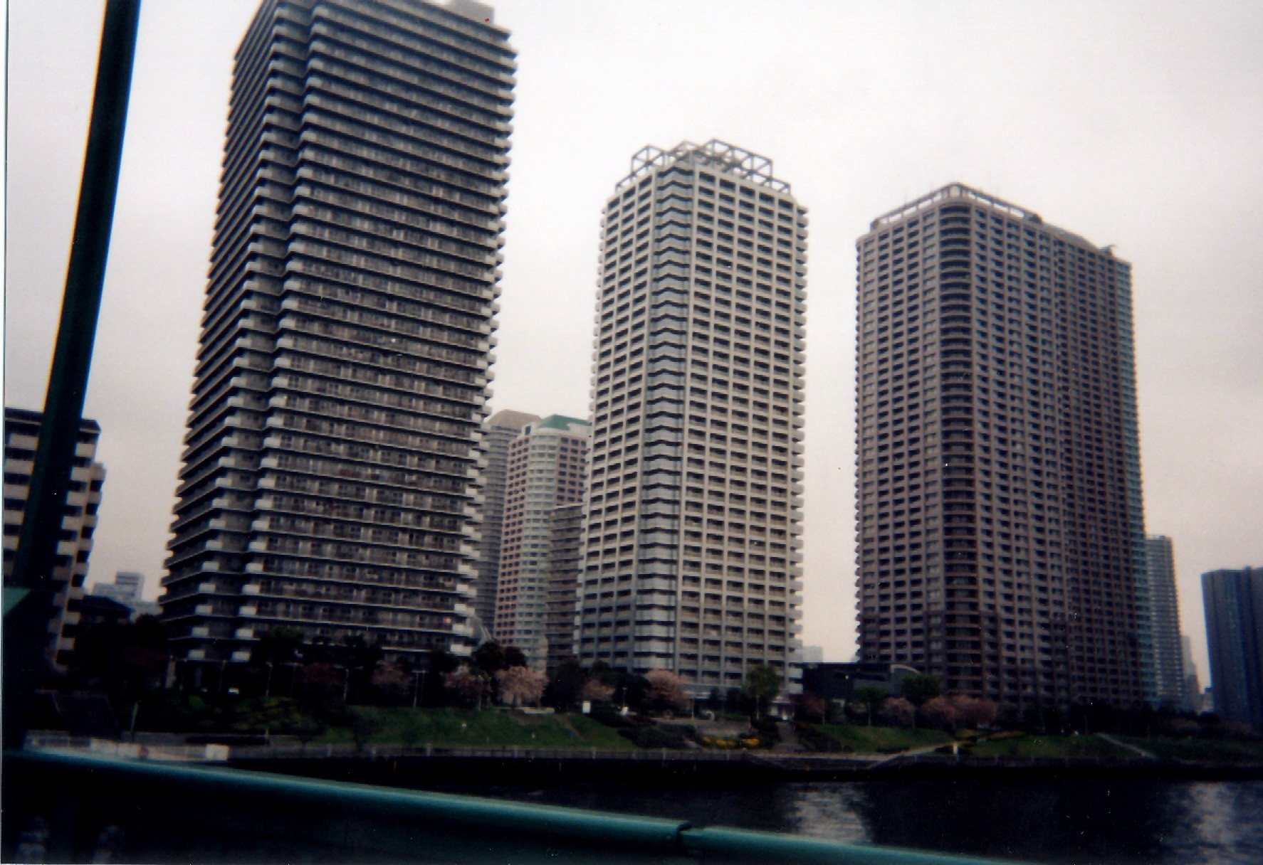 Okawabata River City 21 is a famous high-rise condominium in Tokyo. "Okawabata" means "On the Sumidagawa-River."